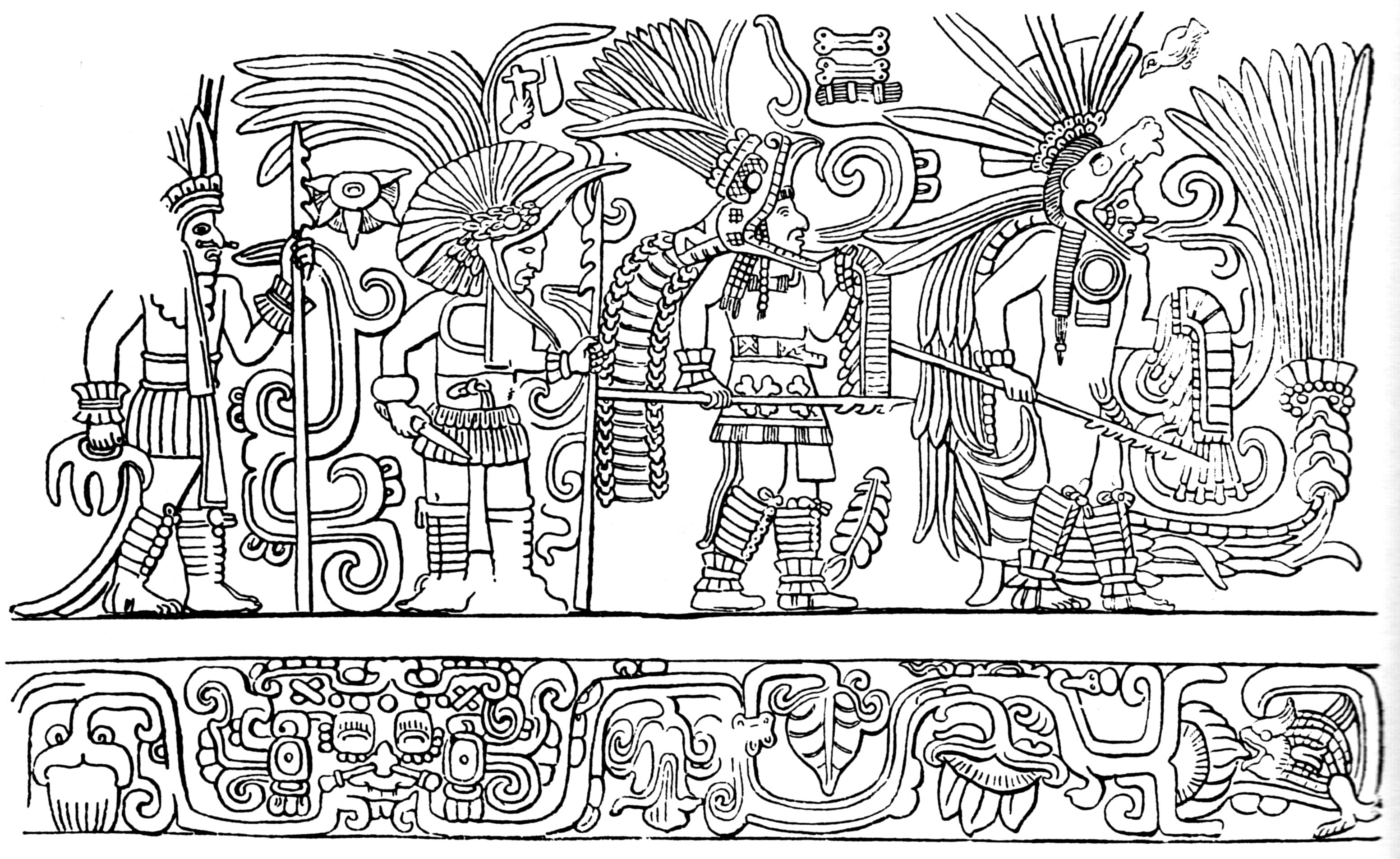 Chichen Itza, lower Temple of the Jaguars, relief of back wall